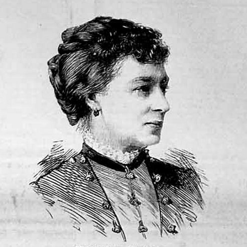 Emily Ann Smythe or Emily Anne Beaufort or Lady Strangford (1826 – 24 March, 1887) was a British illustrator, writer and nurse active in Egypt and Bulgaria et al. This is a picture from "The Graphic" in 1877